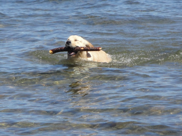 Golden Retriever Retrieving In Water